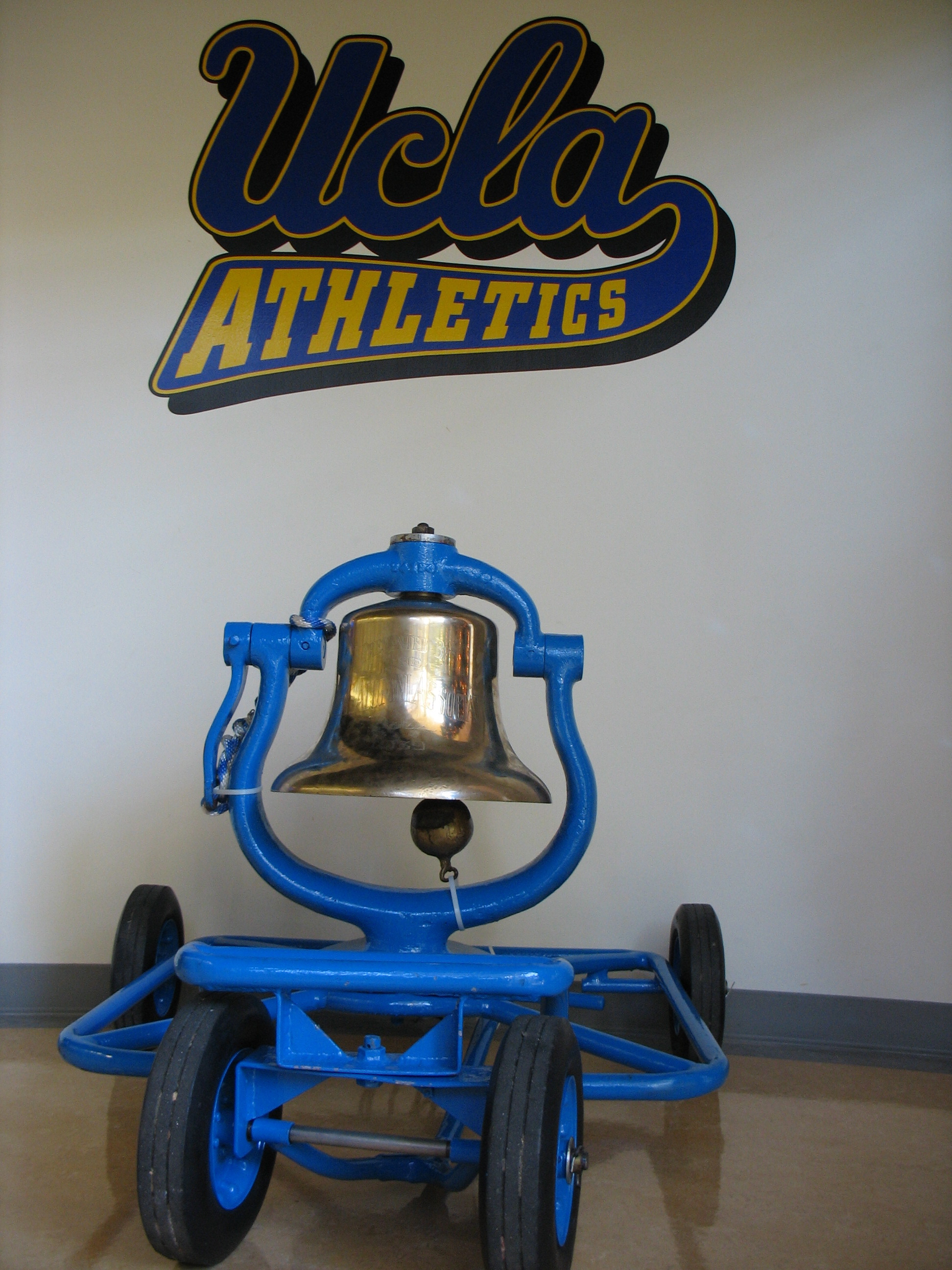 Victory Bell awarded to the winner of football game as part of the UCLA–USC rivalry. Shown at the UCLA Athletics Hall of Fame painted blue after a UCLA win.